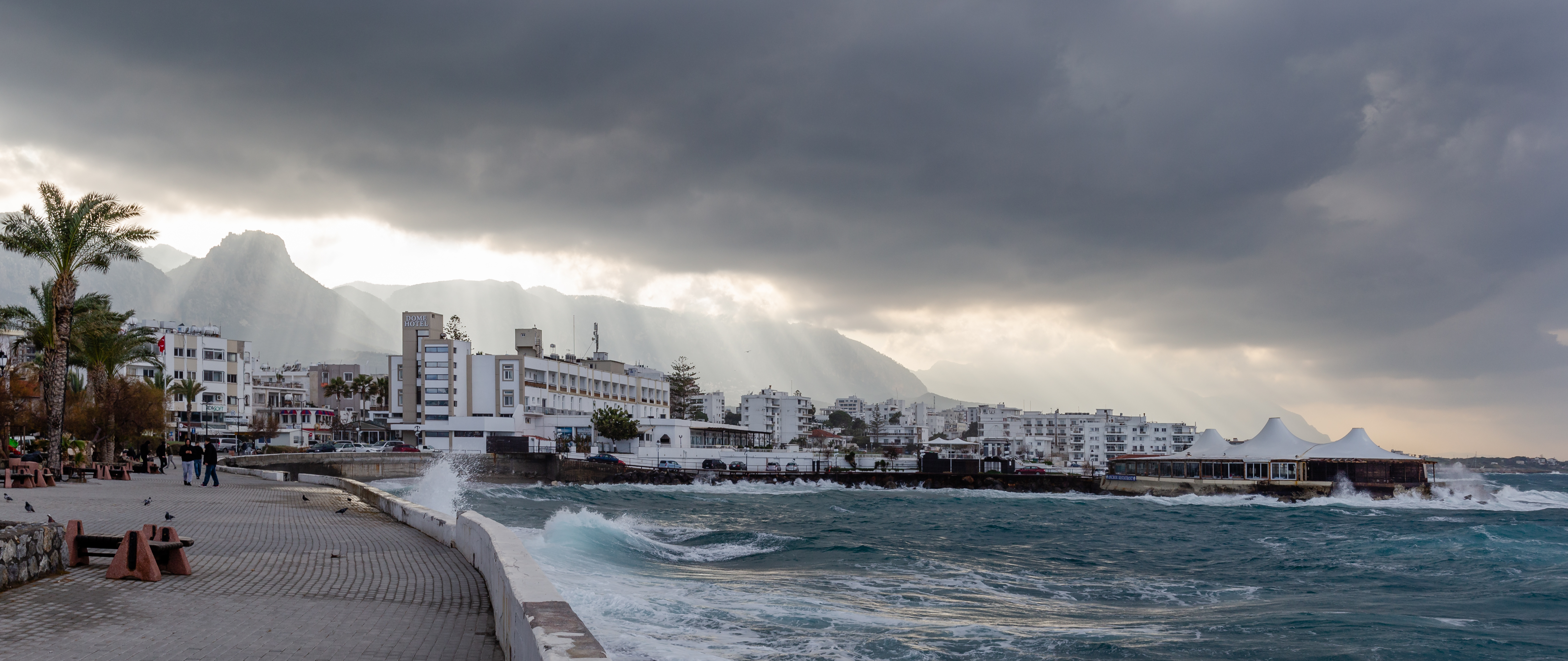 Coast with Dome Hotel, Kyrenia, Northern Cyprus